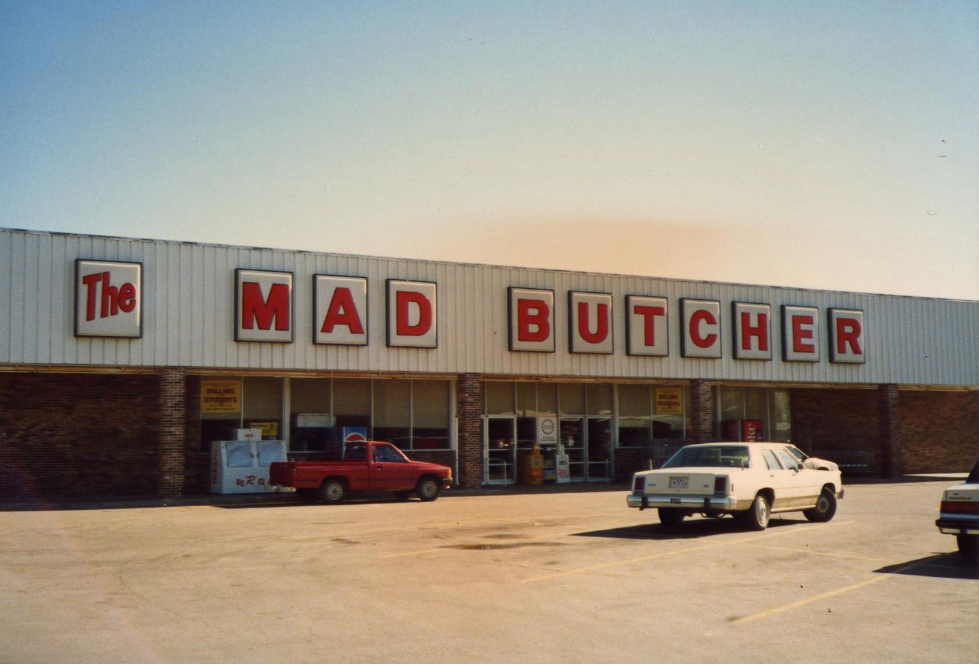 "The Mad Butcher" grocery store in Dumas, Arkansas